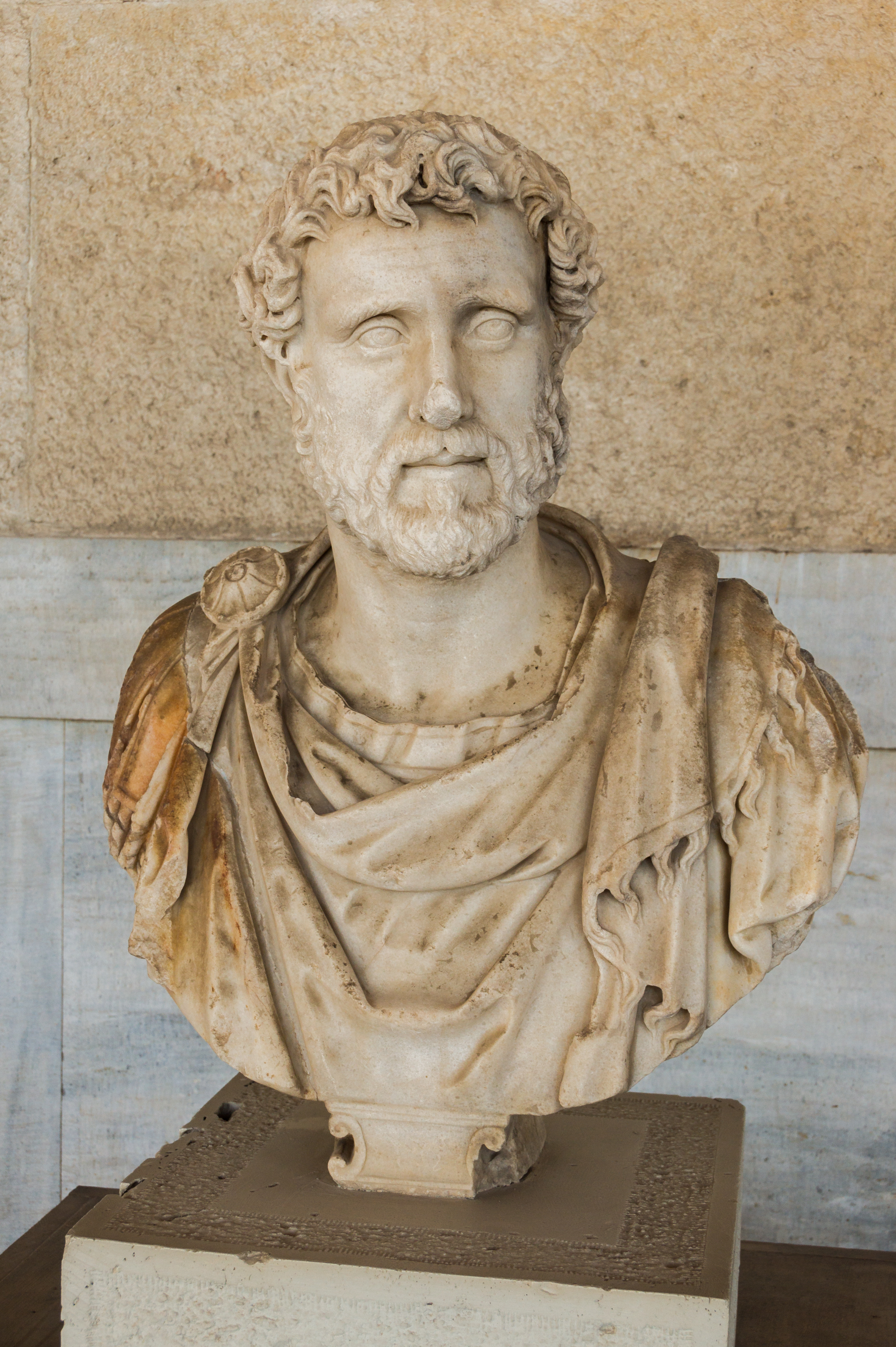 Ancient roman bust of Roman Emperor Antoninus Pius (138 - 161 ). Athens, Greece.